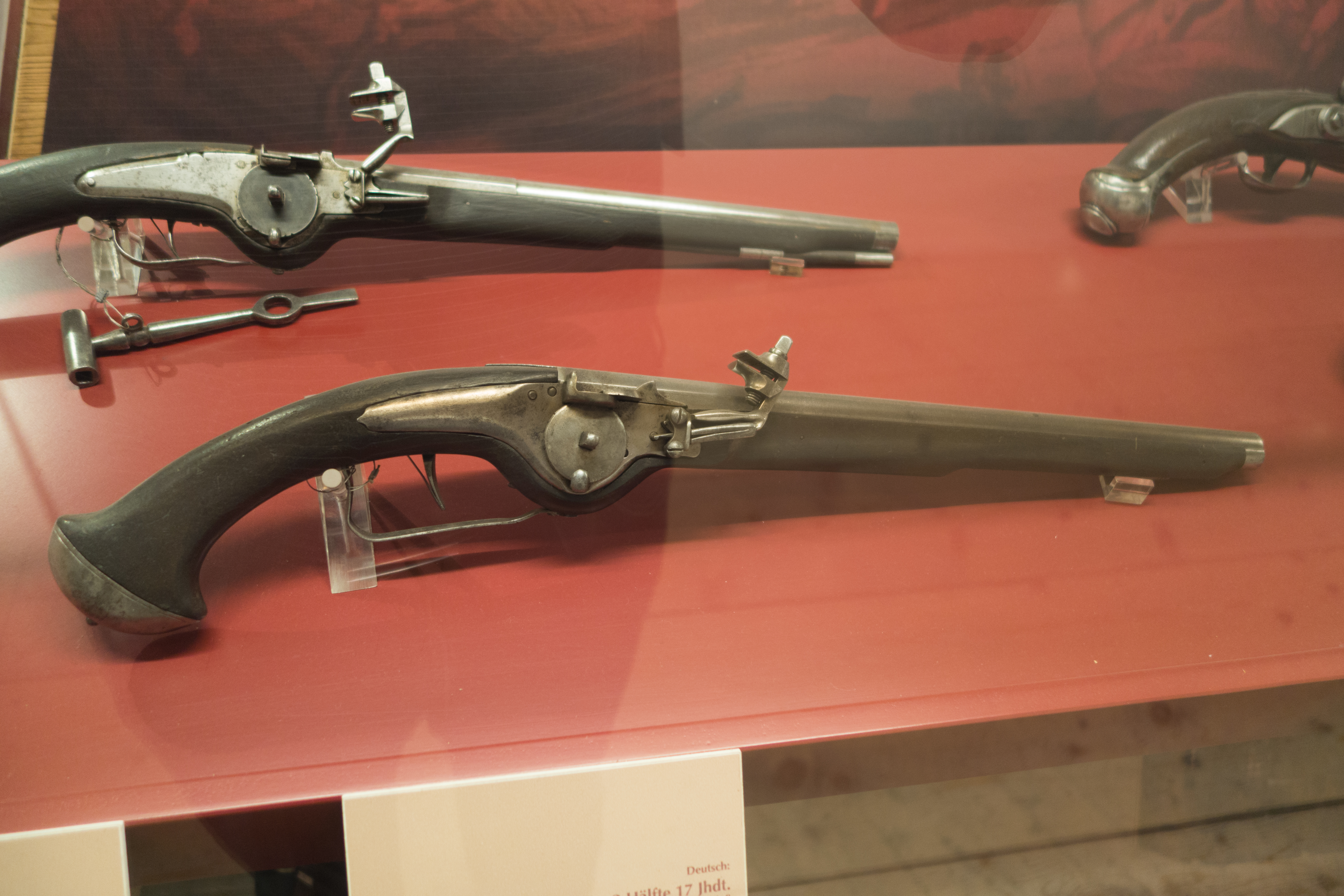 Austria